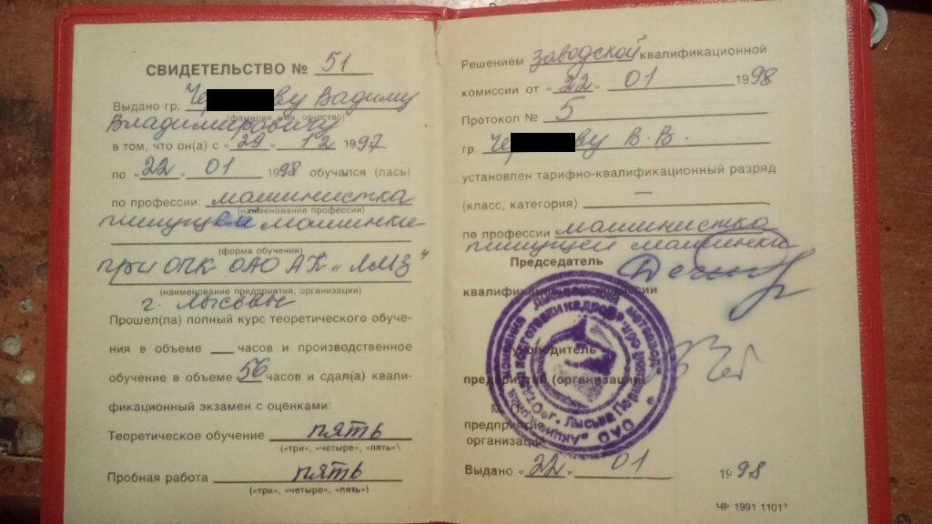 Russian typewriter typist ID